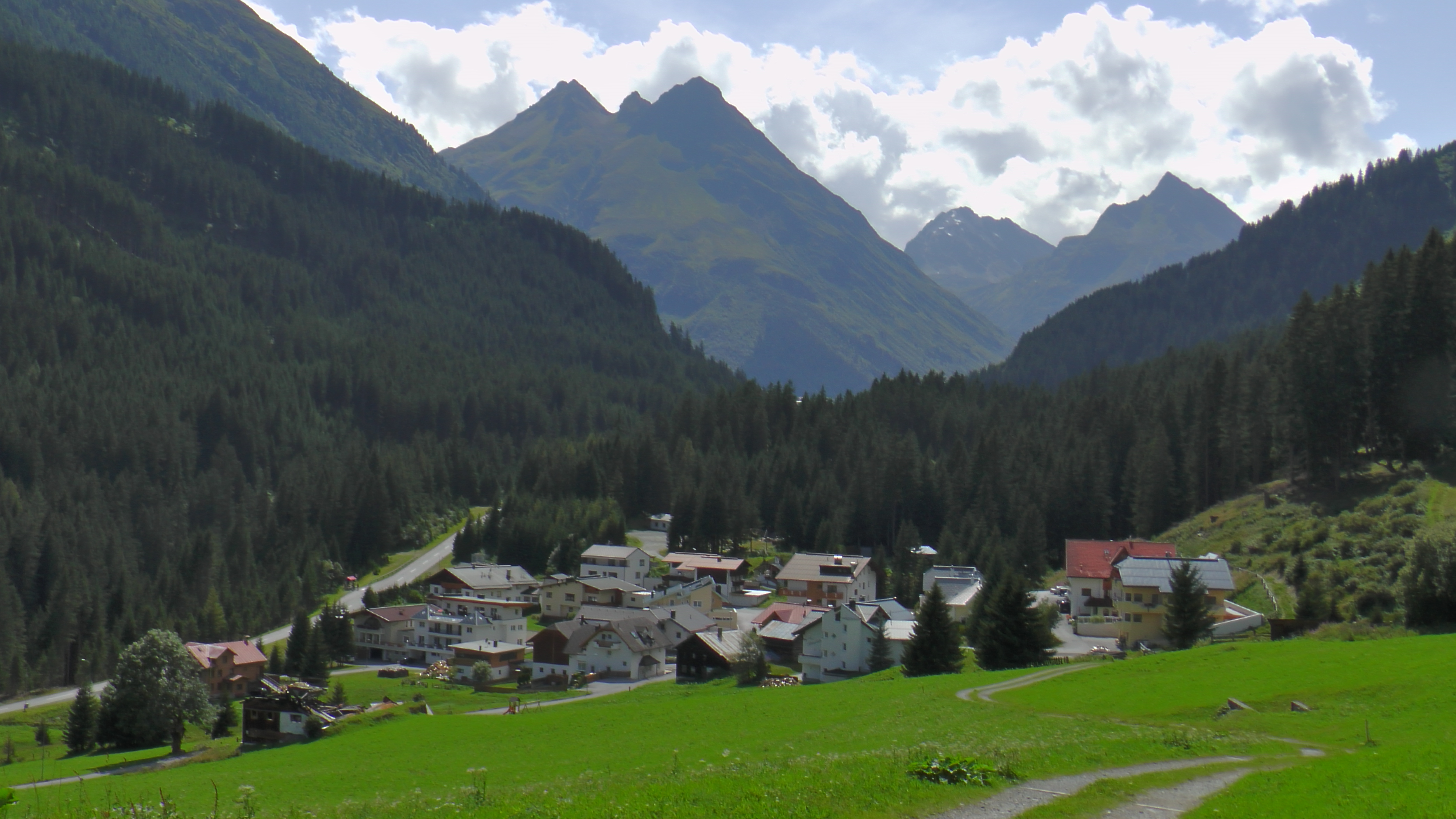 View towards Valzur in the Paznaun Valley to southwest with mountains of Silvretta.